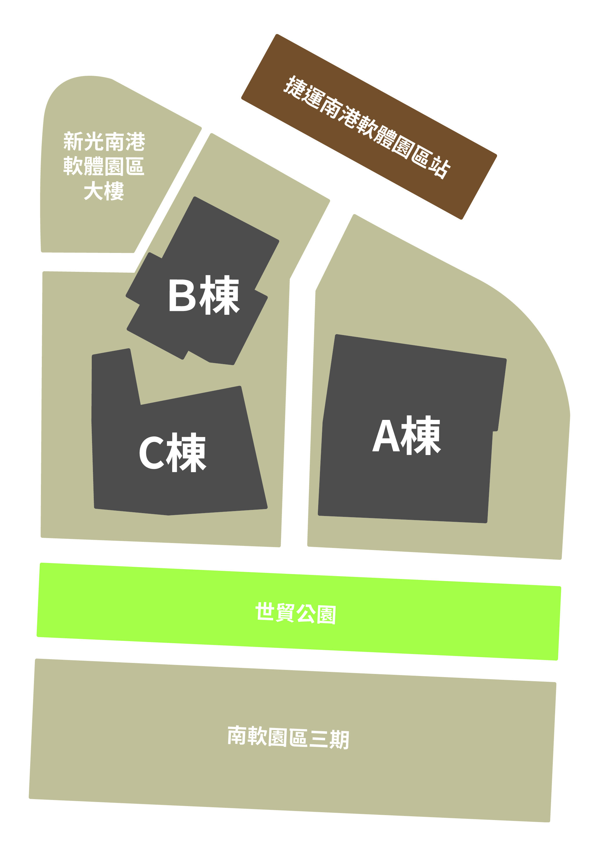 Plan map of CTBC Financial Park 中文（台灣）: 中國信託金融園區平面圖